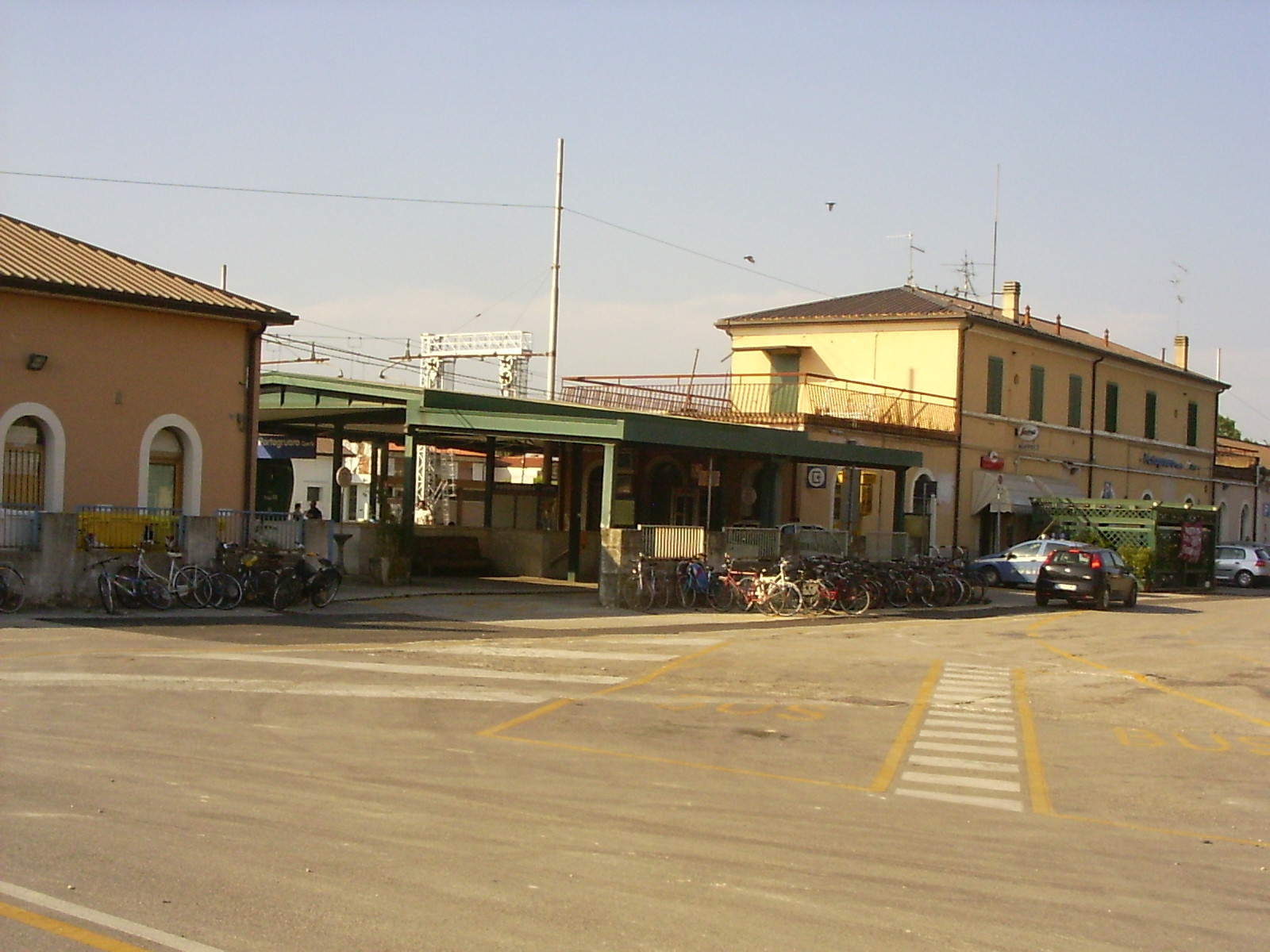 Train station Portogruaro-Caorle, street side